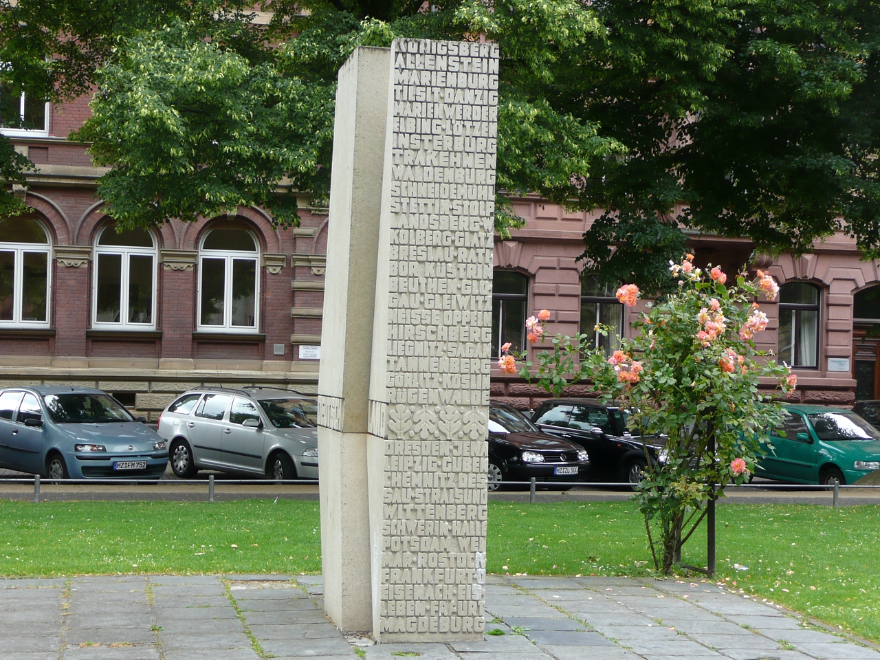 Undividable Germany, memorial; Memorial in Mainz/Germany Fischtor square